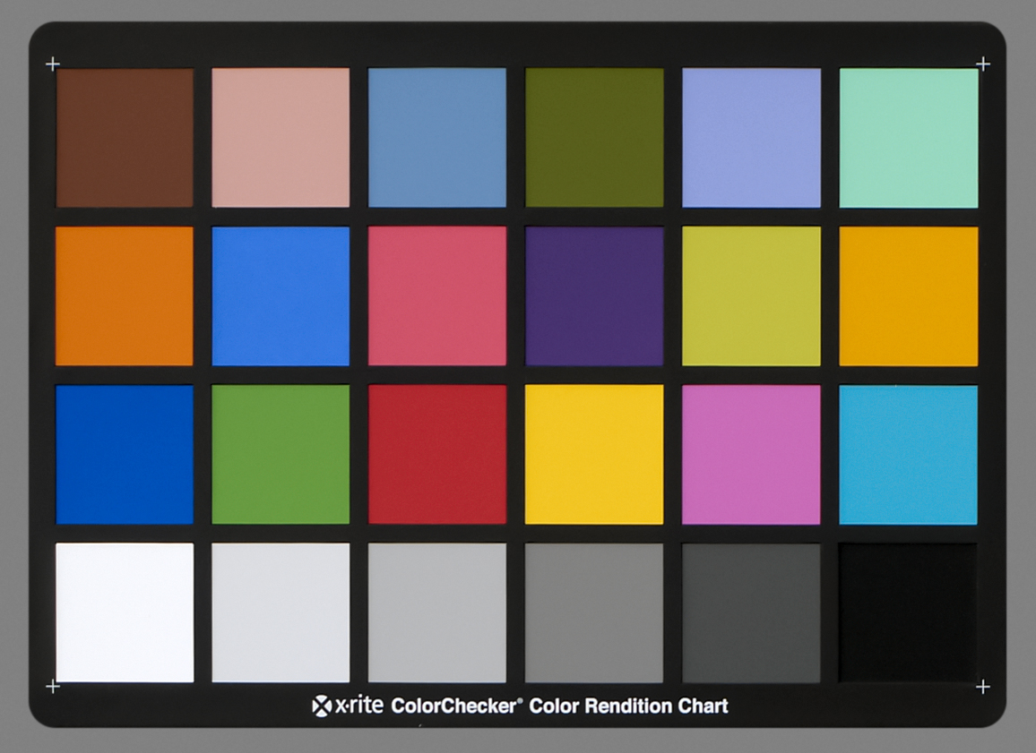 Photograph of an X-Rite ColorChecker Color Rendition Chart